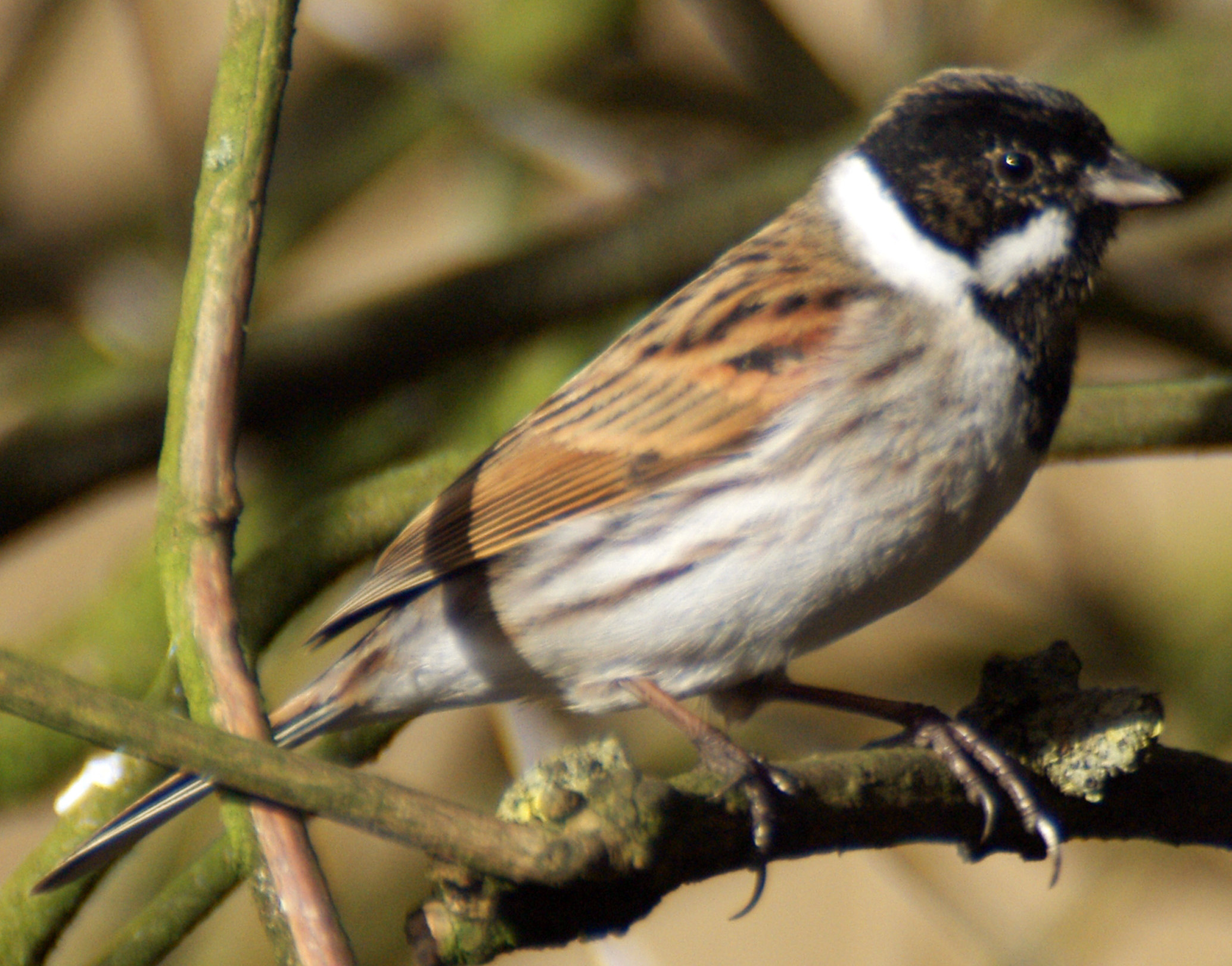 Emberiza schoeniclus - Reed Bunting